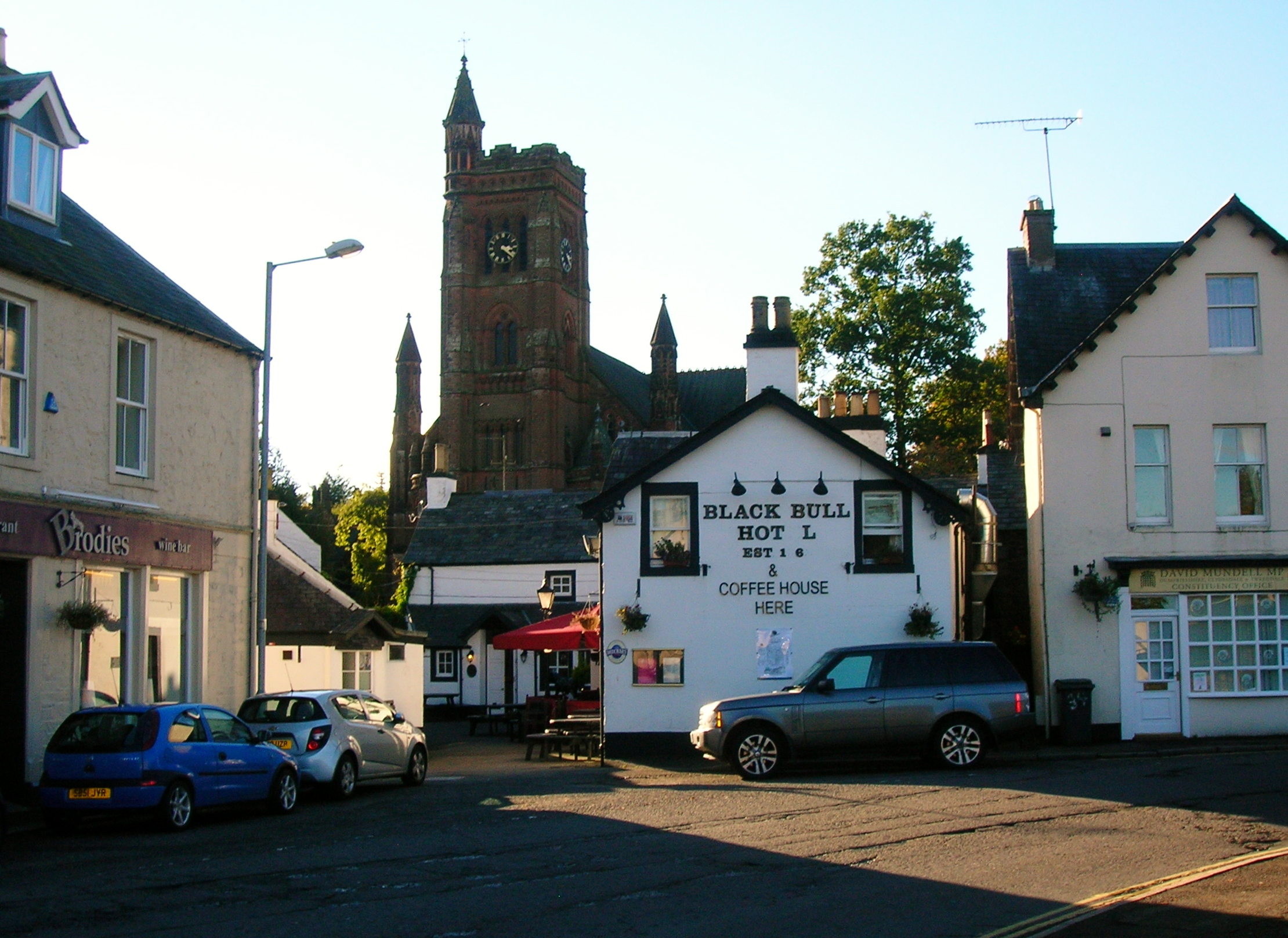 The Black Bull Hotel, Moffat, Dumfries & Galloway, Scotland. A onetime haunt of Robert Burns.